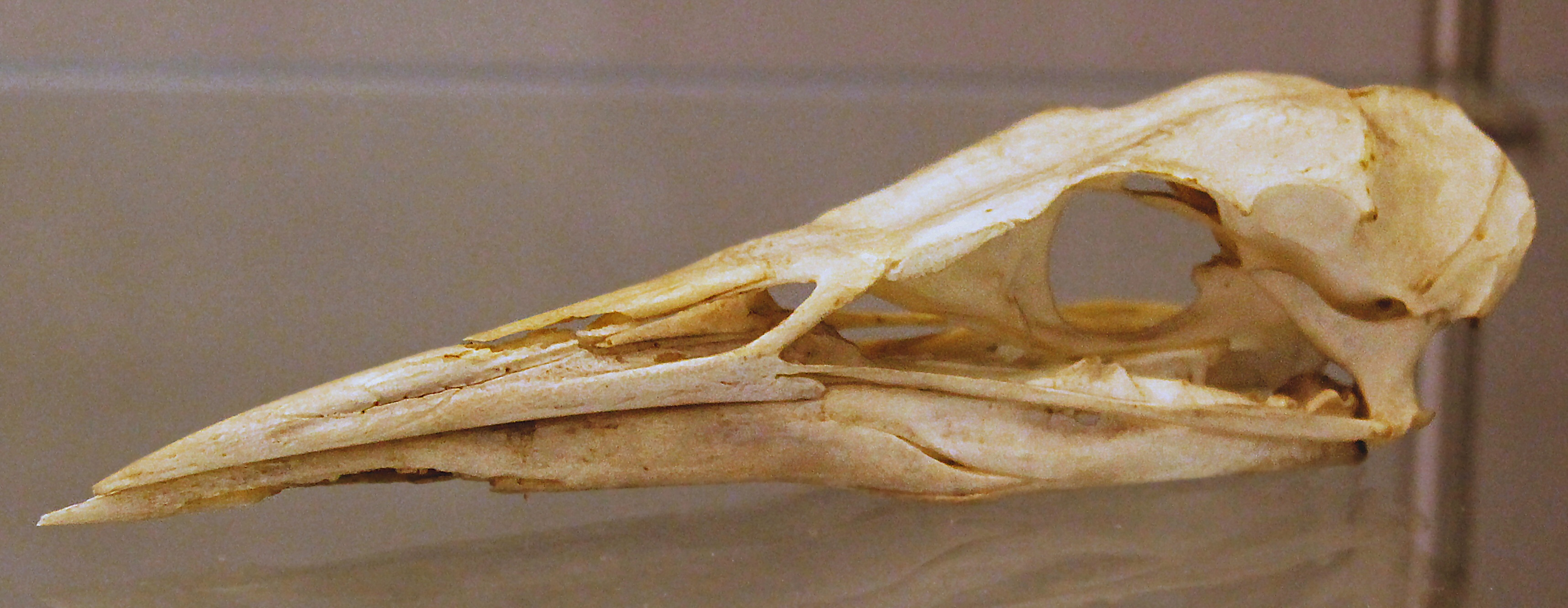 Eurasian Bittern (Botaurus stellaris) skull at the Royal Veterinary College anatomy museum